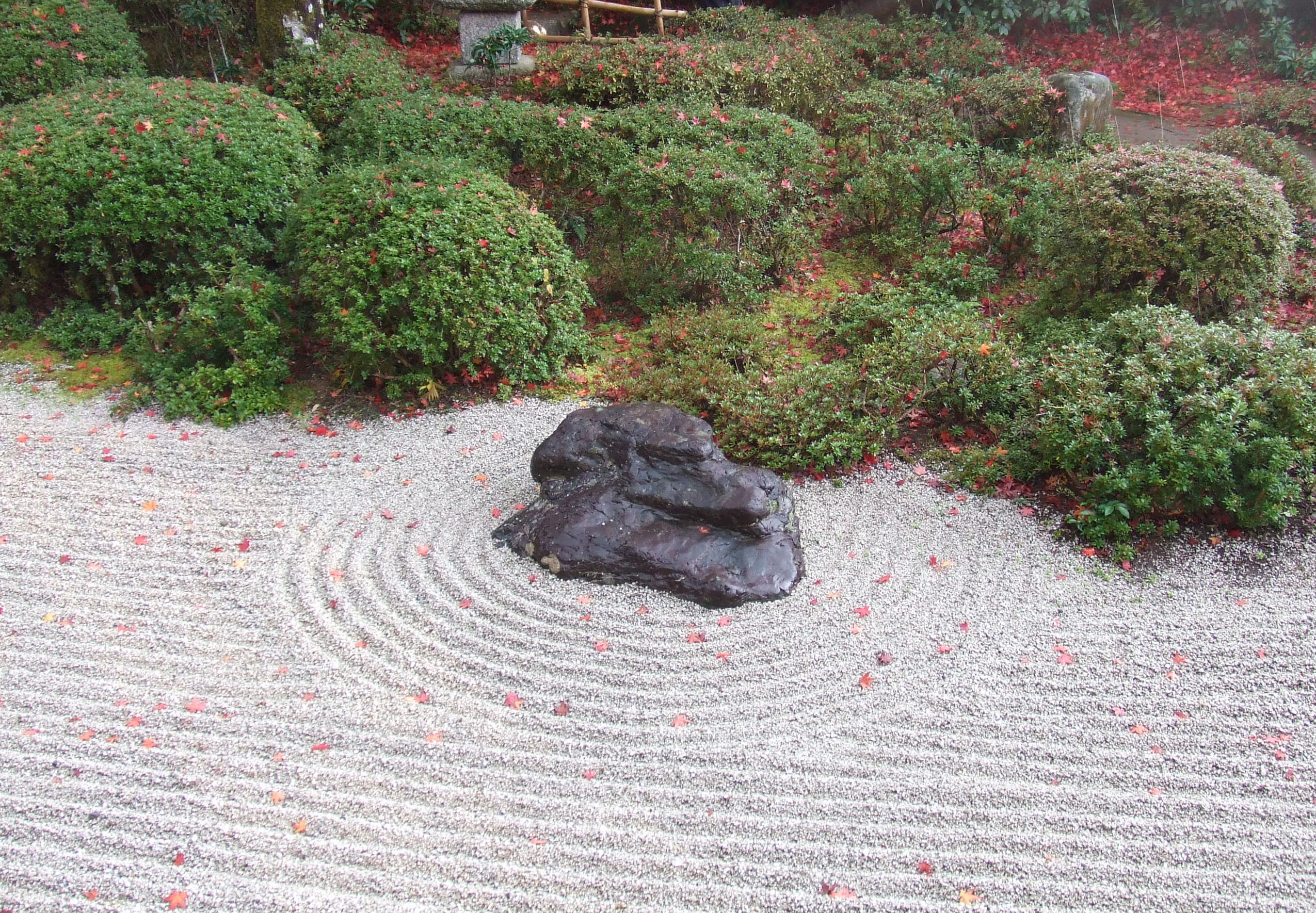 Garden in Konpuku-ji